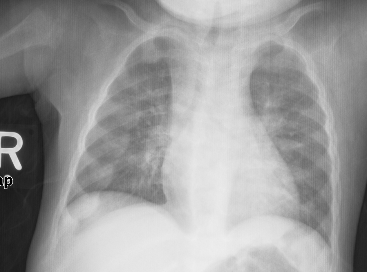 The chest radiograph in this child shows nodular prominence of the costochondral junctions, consistent with rickets.